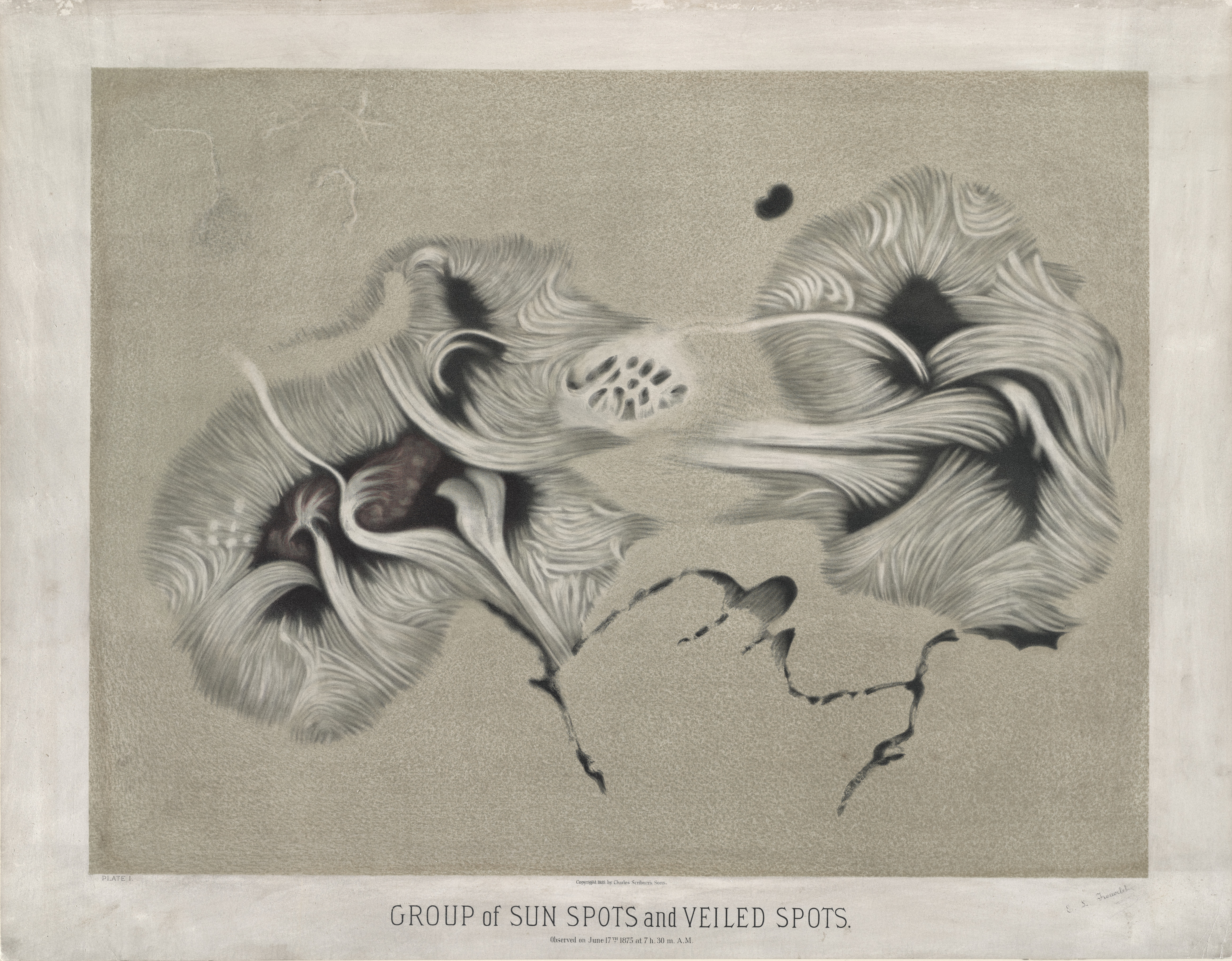 Group of sun spots and veiled spots. Observed on June 17th 1875 at 7 h. 30 m. A.M. (Plate I from The Trouvelot Astronomical Drawings 1881)